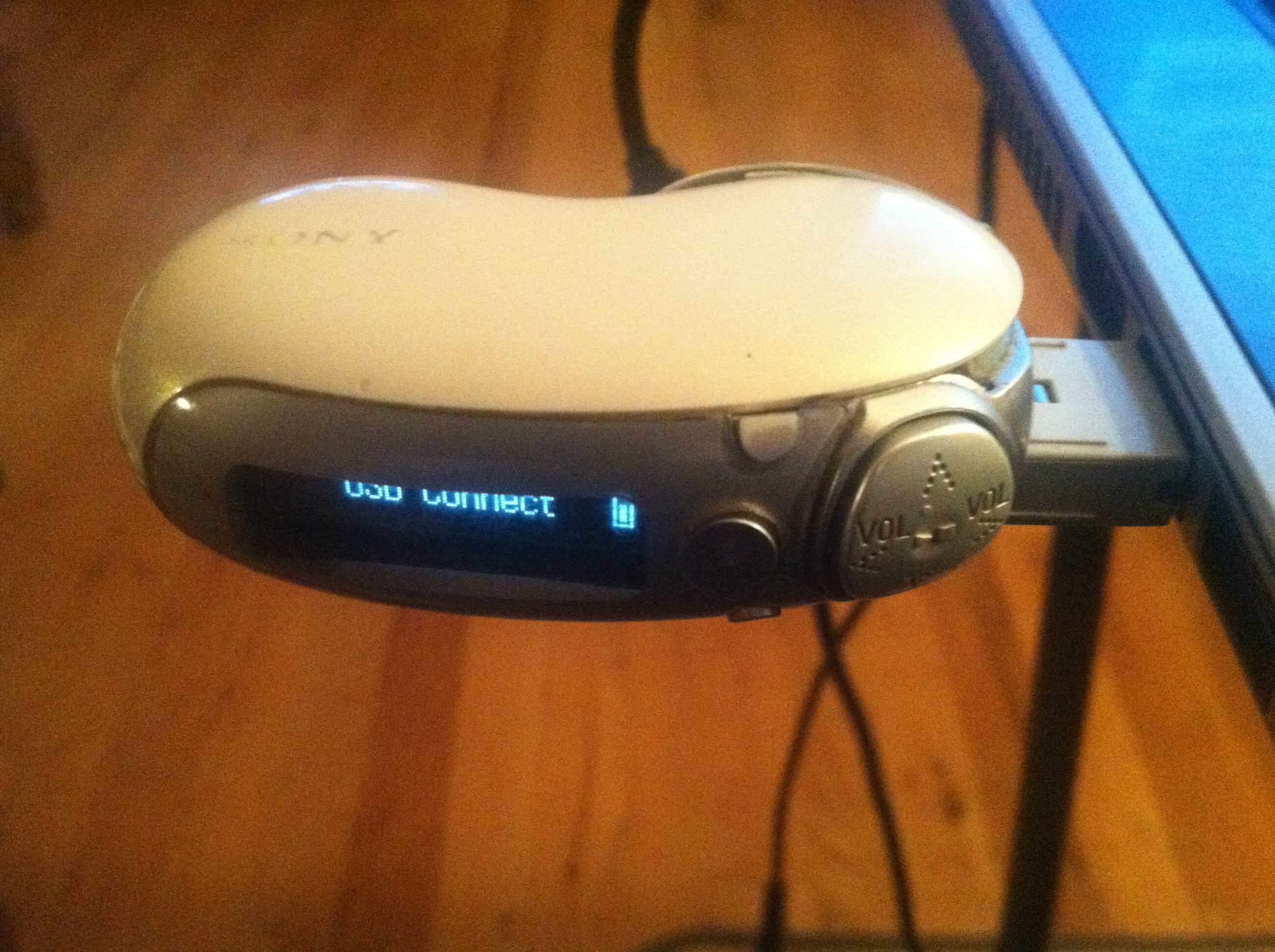 Sony Walkman Bean Limited Series